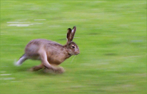 Running european hare (Lepus europaeus.)